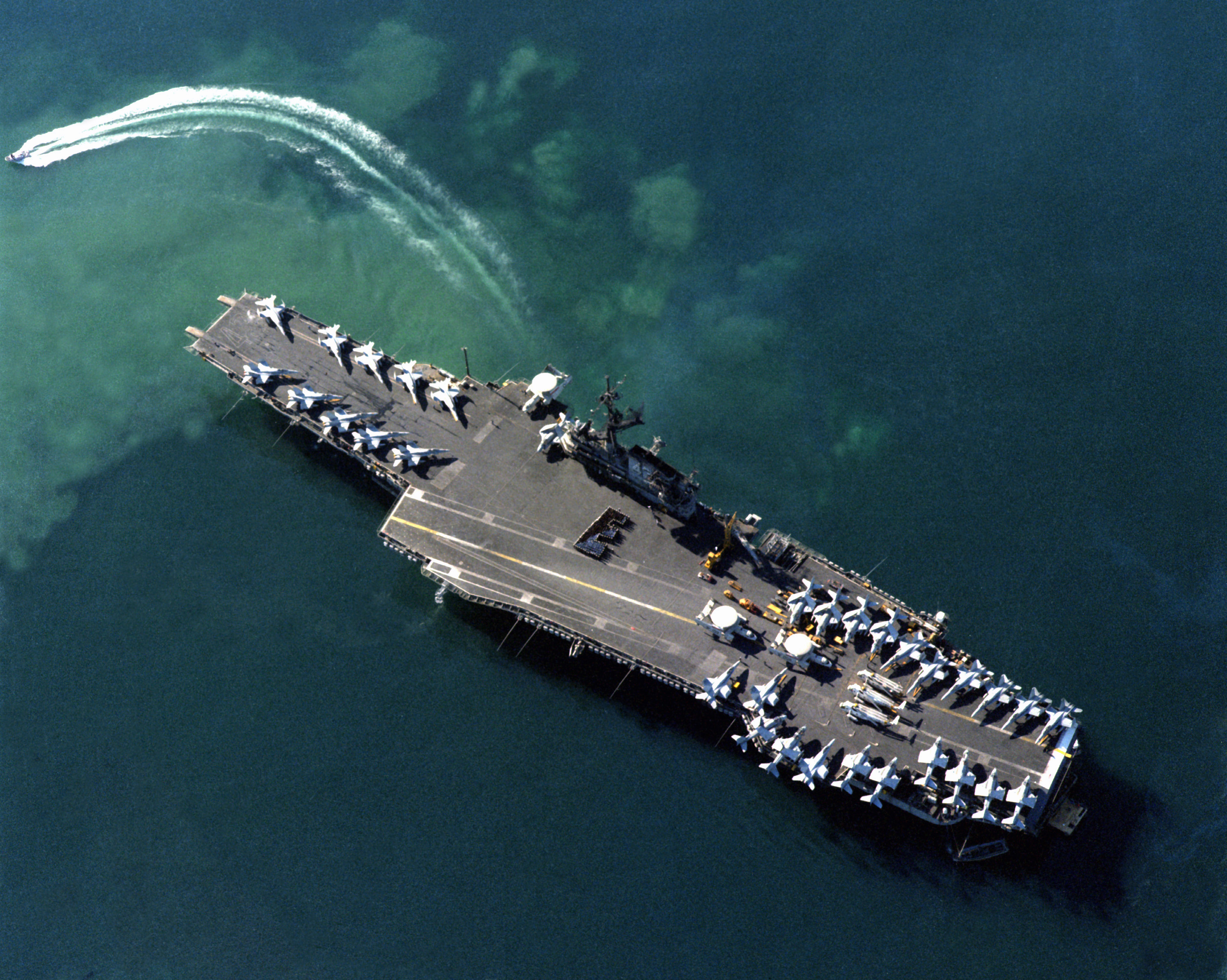 Members of the aircraft intermediate maintenance division (AIMD) form the letter E on the flight deck of the U.S. Navy aircraft carrier USS Coral Sea (CV-43) moored in the port of Benidorm, Spain. The E denotes an efficiency award. The Coral Sea, with assigned Carrier Air Wing 13 (CVW-13), was deployed to the Mediterranean Sea from 29 September 1987 to 28 March 1988.